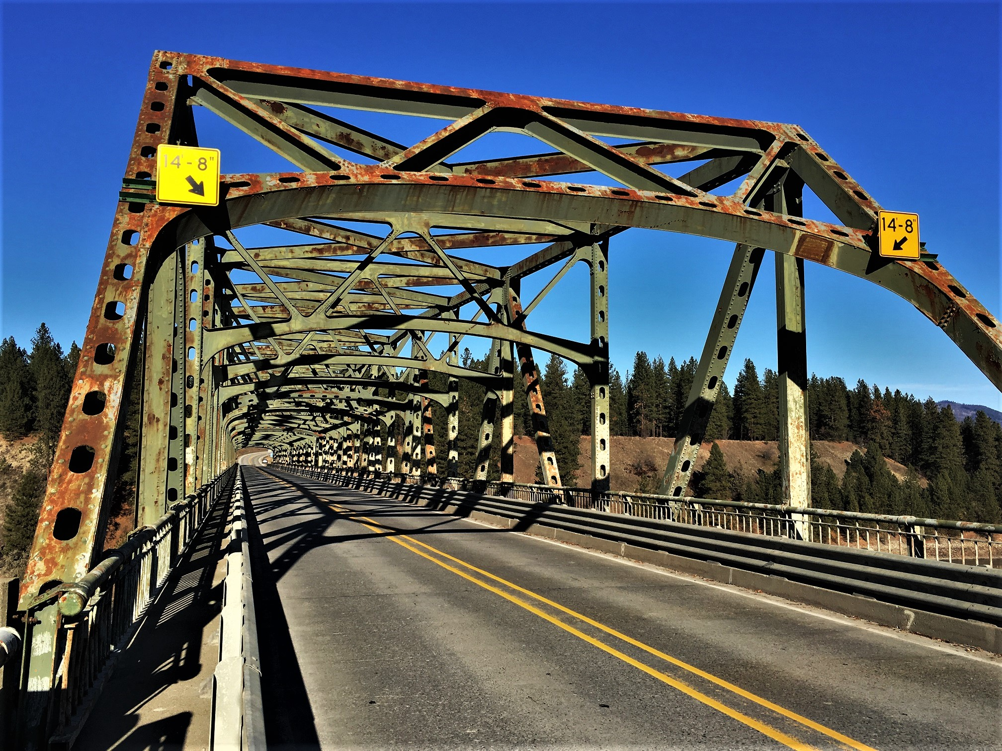 Columbia River Bridge at Northport Active state highway span in significant need of maintenance at time of visit.